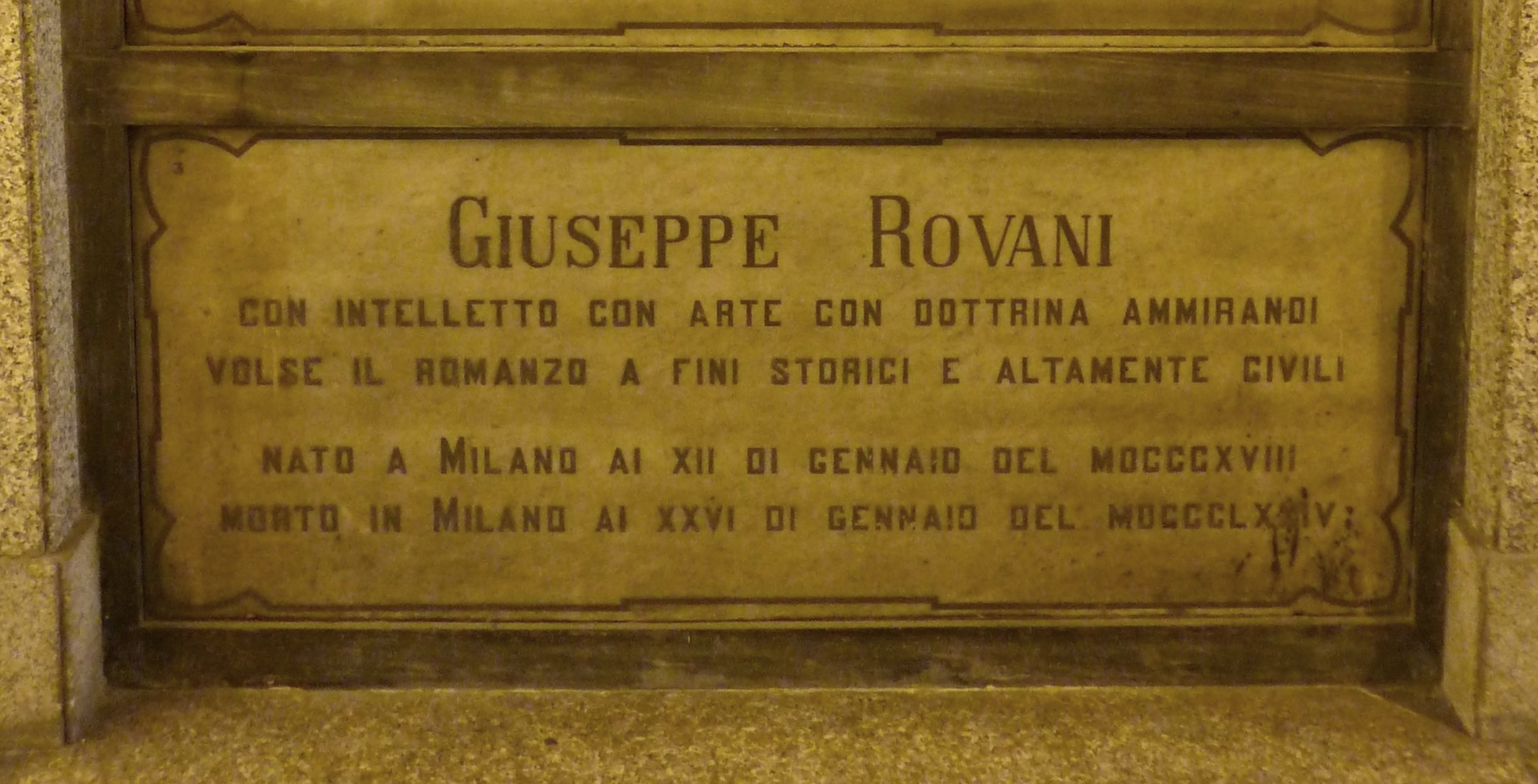 The grave of Italian writer Giuseppe Rovani at the Monumental Cemetery of Milan, Italy.